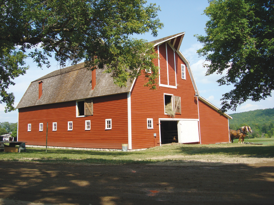 Scope and content: The original finding aid described this photograph as: Original Caption: Located on Sunne Farm at Fort Ransom State Park, the red barn is a focal point for the annual Sodbuster Days celebration. Location: Sunne Farm, Fort Ransom State Park, North Dakota (46.521° N 97.918° W) Status: Public domain. Photo by Sodbusters Association